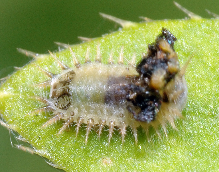 Temporary upload This species is still unidentified. Any help is greatly appreciated. This is the larva of a beetle, probably Cassida (C. rubiginosa, C. viridis?), camouflaging itself with its feces. B kimmel 11:15, 18 July 2006 (UTC) location on an area of grass-like plants in Zwickau (Germany) length 3.5 mm